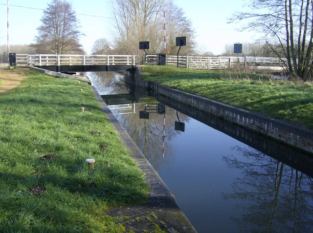 Ufton Lock and Swing Bridge Ufton Lock only had a fall of about 1 foot, so has now been de-gated and the levels are the same both sides. The swing bridge has been mechanised as it carries a high colume of traffic. A few hundred yards to the north (left) is the railway crossing where the Ufton Nervet accident occurred recently.